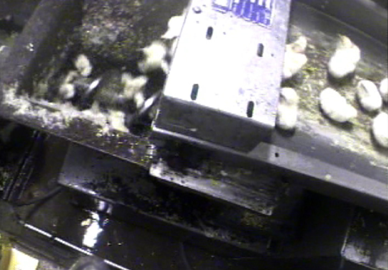 Egg Hatchery - HyLine HyLine, "a leader in the layer breeding industry by expanding the frontiers of genetics and producing excellent stock."